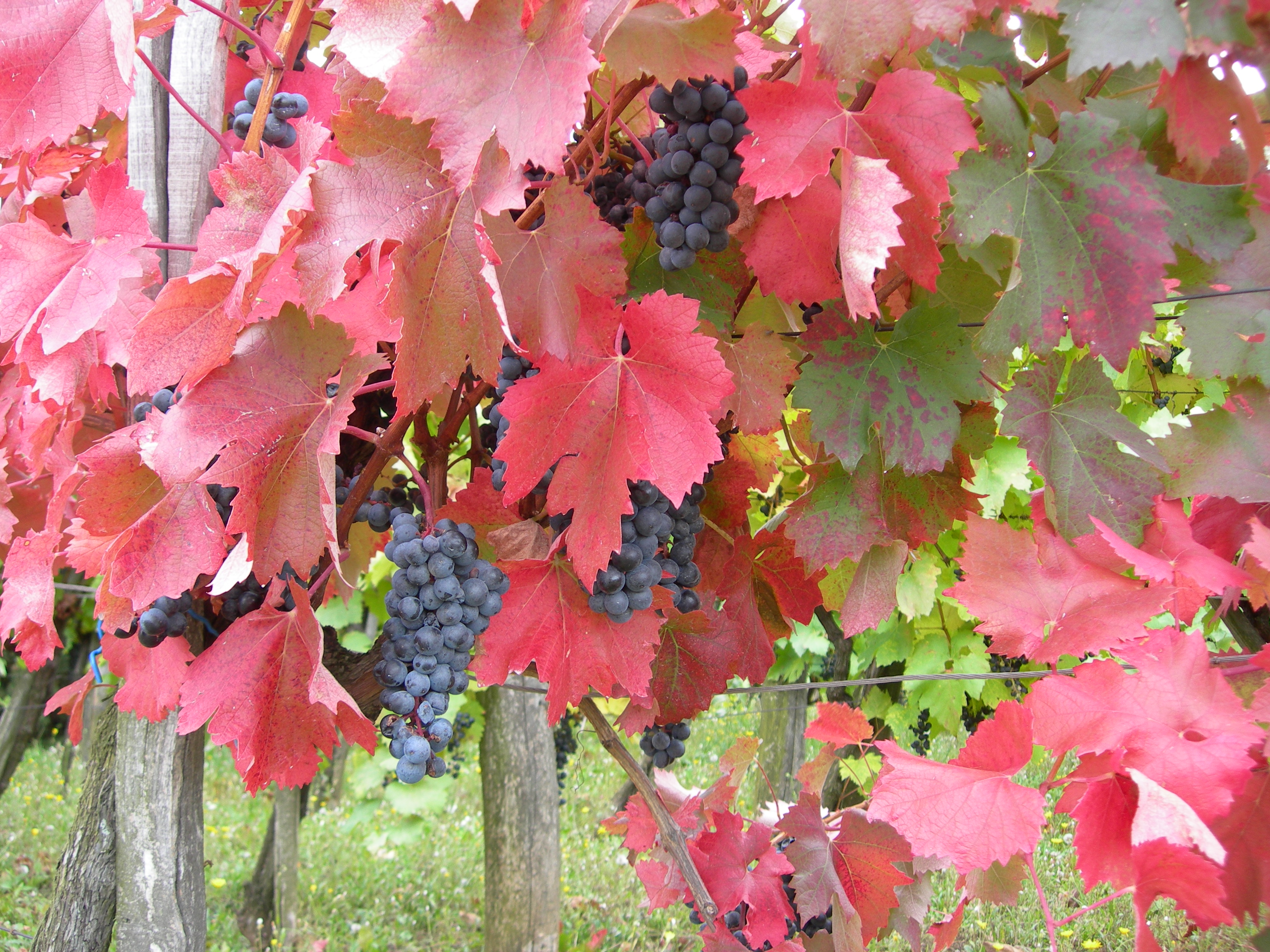 A cross between Muscat Bouschet and Kadarka, first produced in 1948